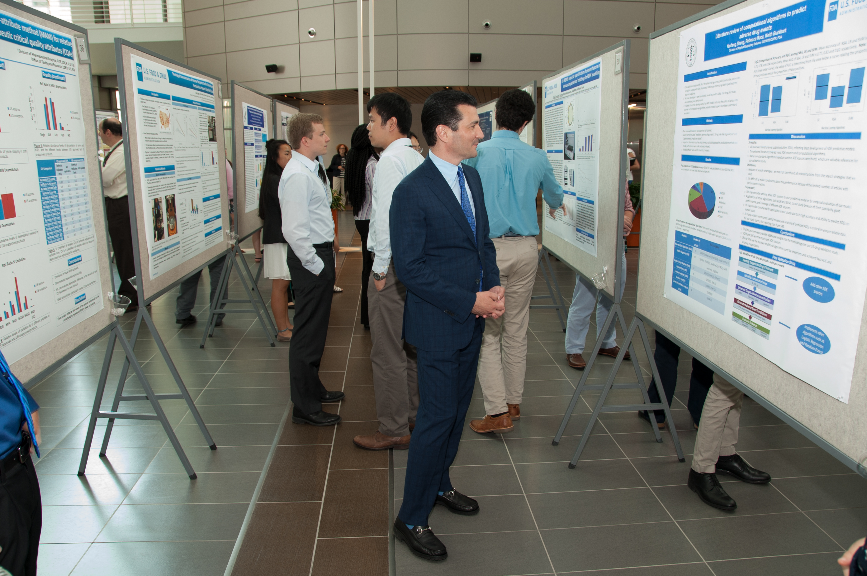 Aug. 2, 2017; Commissioner Scott Gottlieb and Congressman John Sarbanes delivered remarks at the agency's Annual Student Science Poster event. The event has been held for the past 10 years+ by the Center for Devices and Radiological Health (CDRH) for the purpose of displaying scientific posters based on the research of more than 75 student interns who during 2017 worked for the Food and Drug Administration or for the Air Force Research Facility on site. The FDA participants are students who attend local high schools and colleges located throughout the United States and internationally. Learn more about the FDA. This photo is in the public domain, free of all copyright restrictions, and available for use and redistribution without permission. Credit to the U.S. Food and Drug Administration is appreciated but not required.